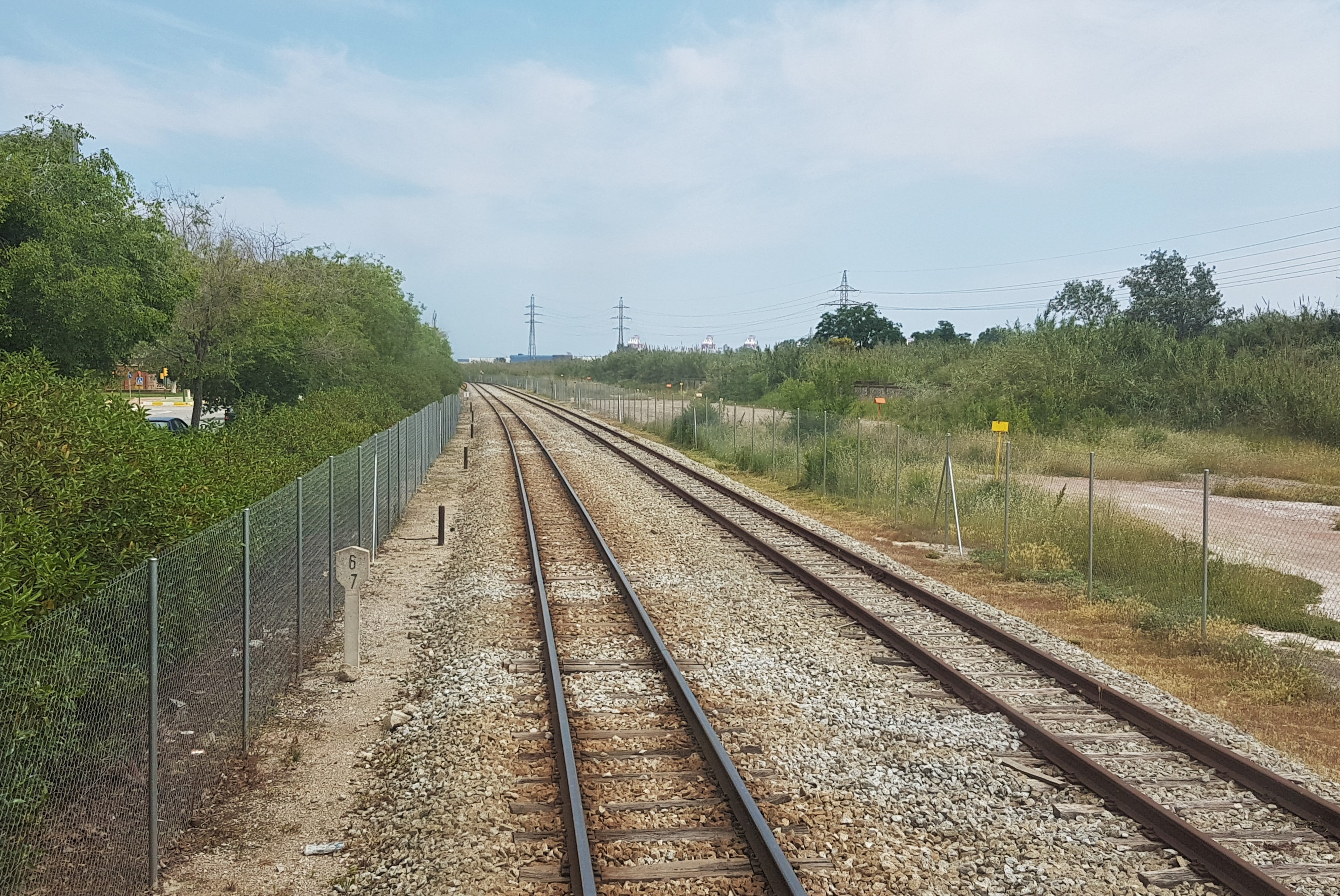 The siding of Zona Franca, on the line from Barcelona El Port to Sant Boi of Ferrocarrils de la Generalitat de Catalunya.